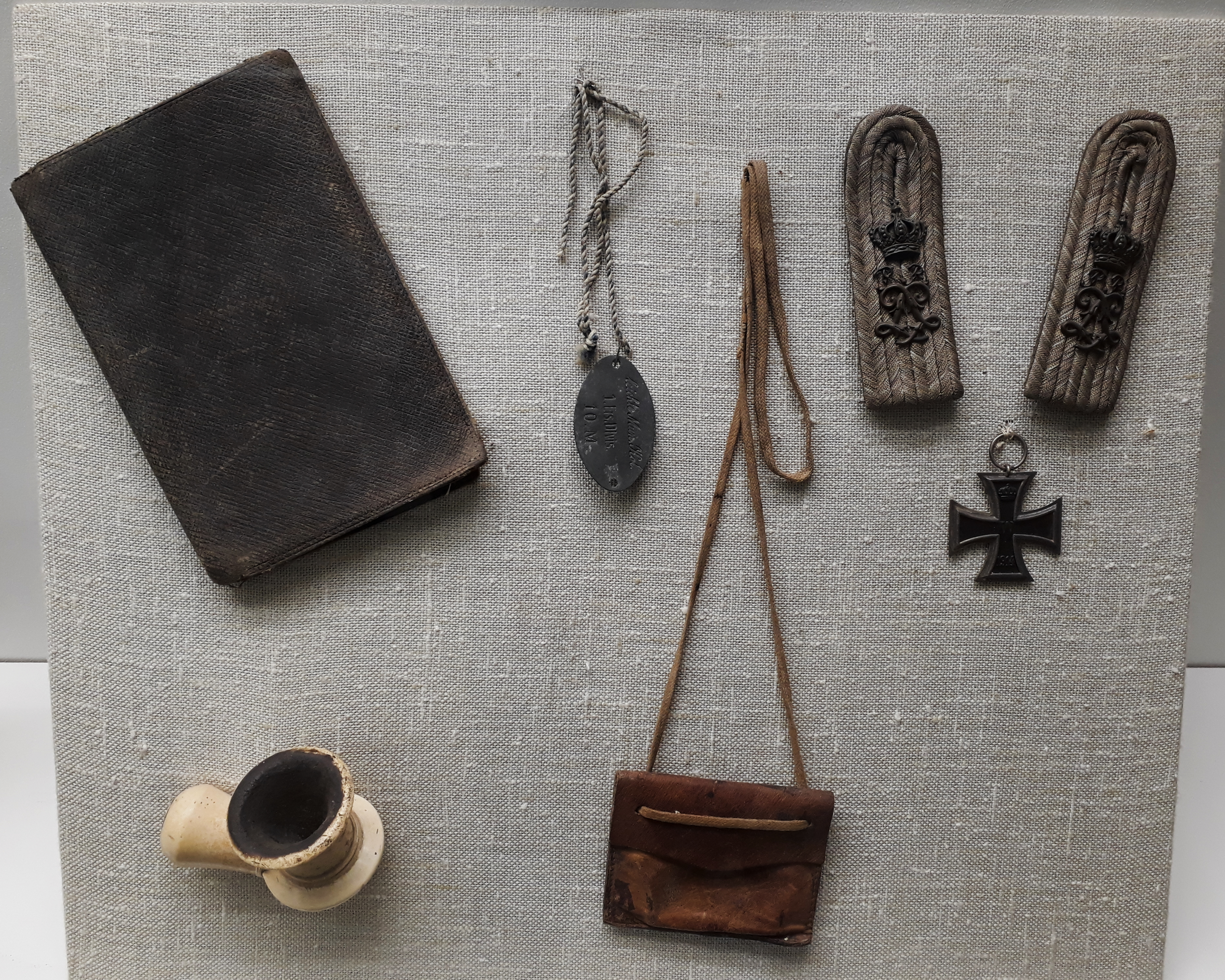 The military NACHLASS (person's estate) of the German/Bavarian painter Franz Marc who died during World War First near Verdun in 1916. It is on display in the "The museum of World War I" in Ingolstadt.